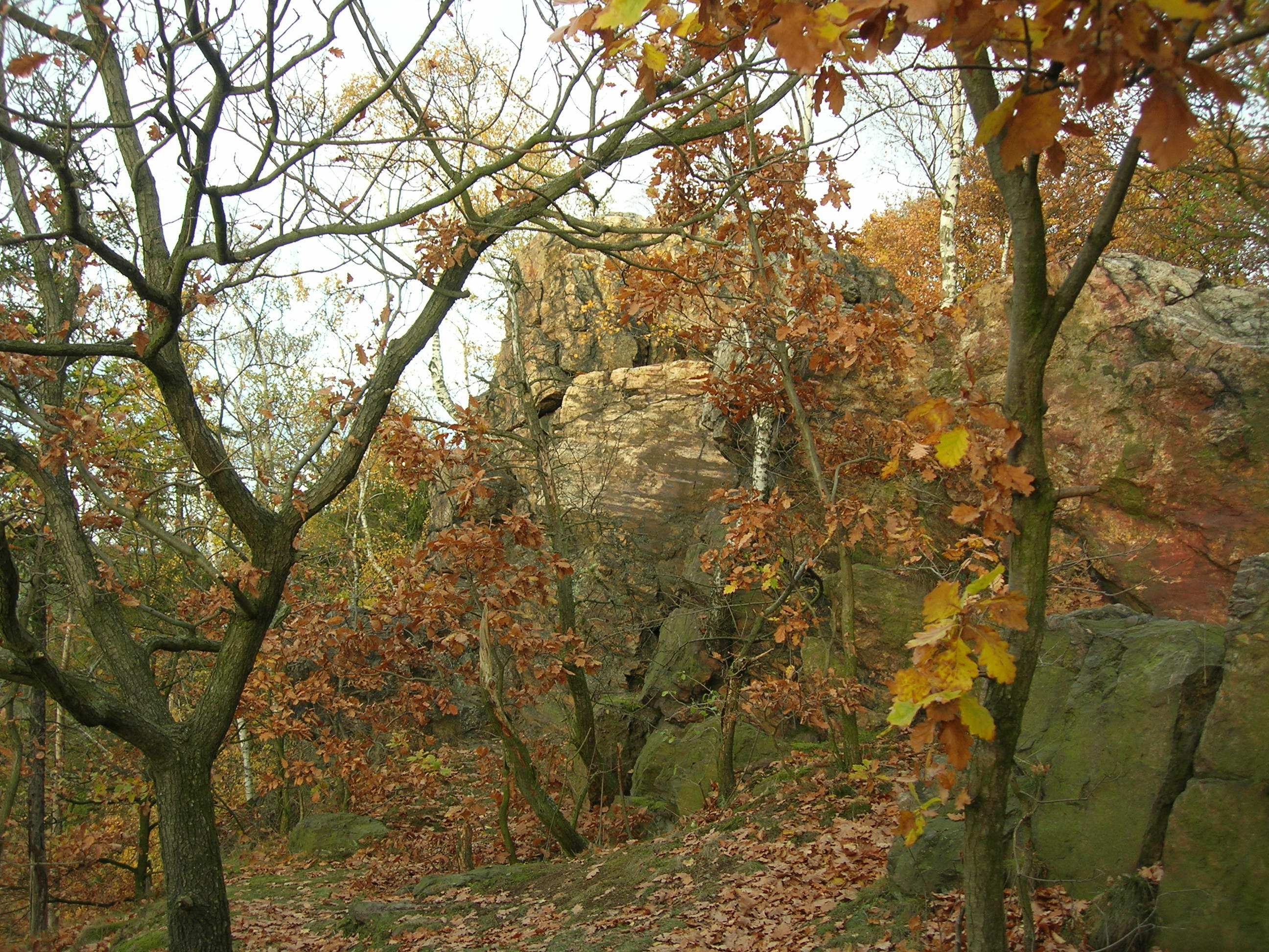 Nature reserve Údolí Únětického potoka near Suchdol, part of Prague, Czech Republic